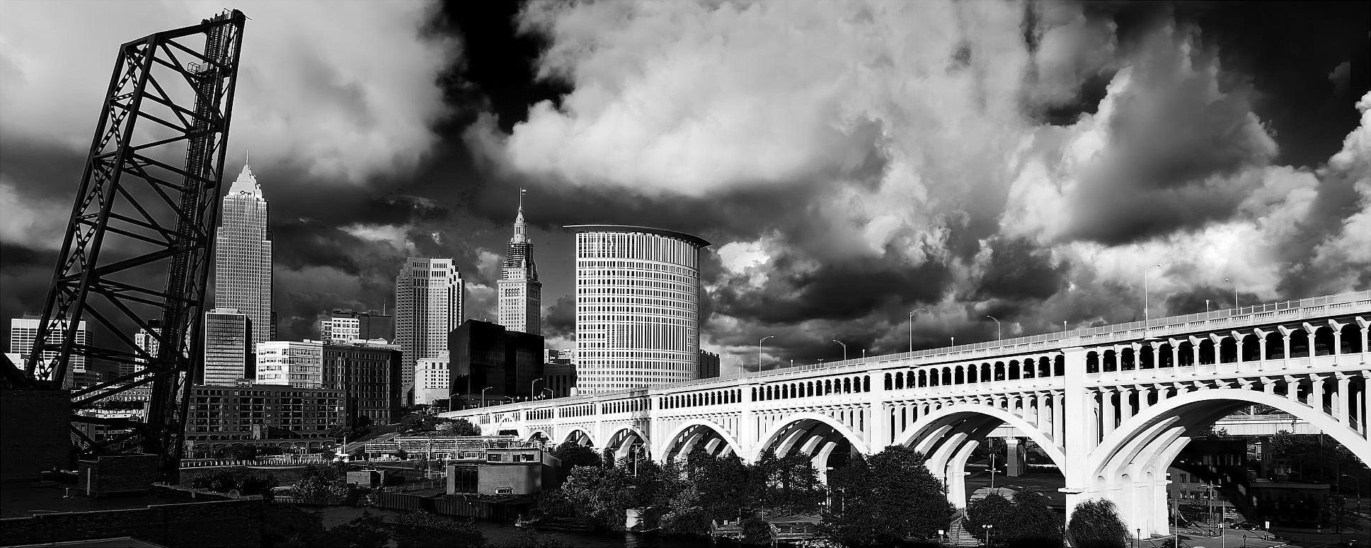 Downtown Cleveland, Ohio